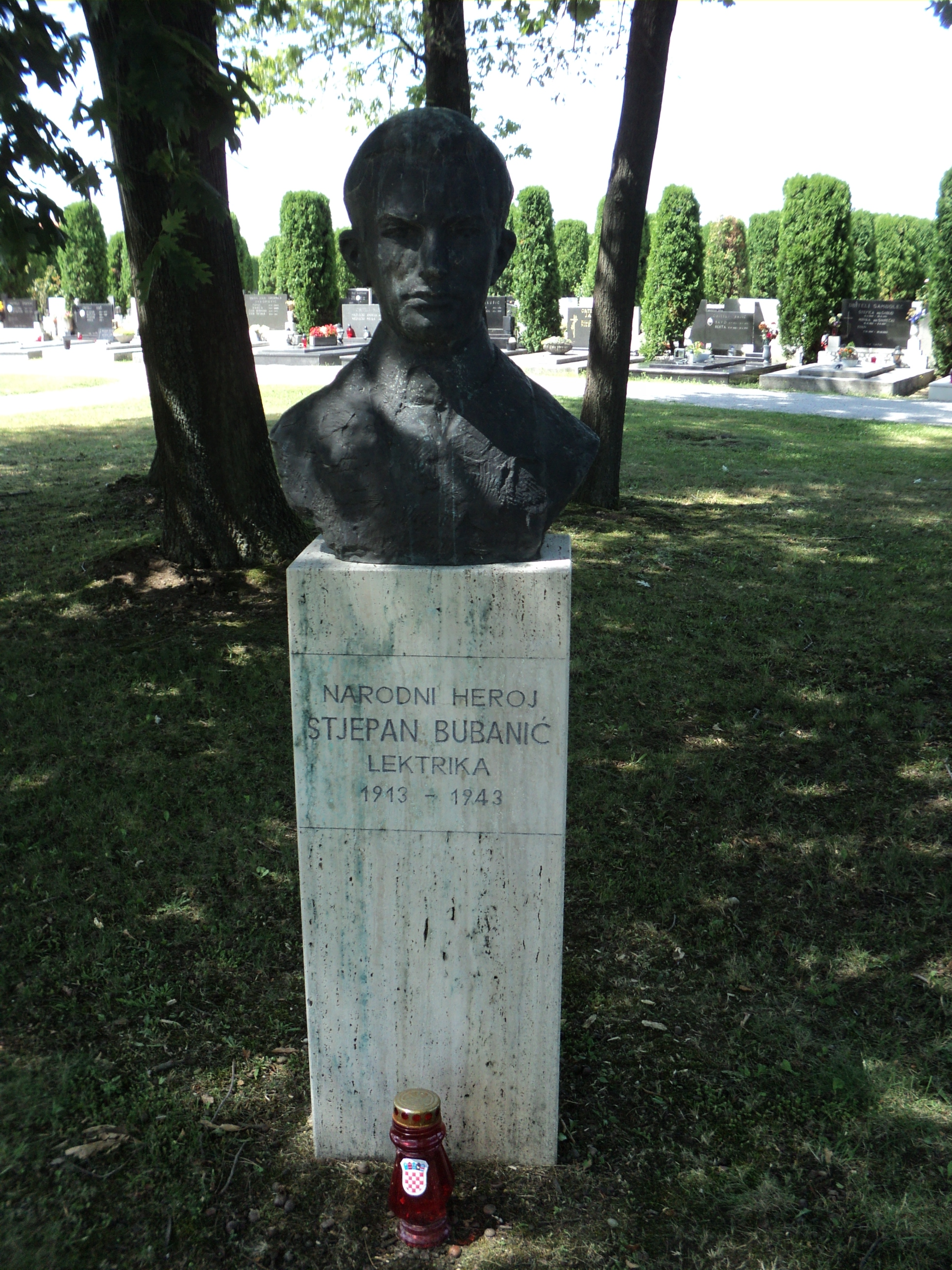 Bust of People's hero Stjepan Bubanić in Varaždin cemetery.